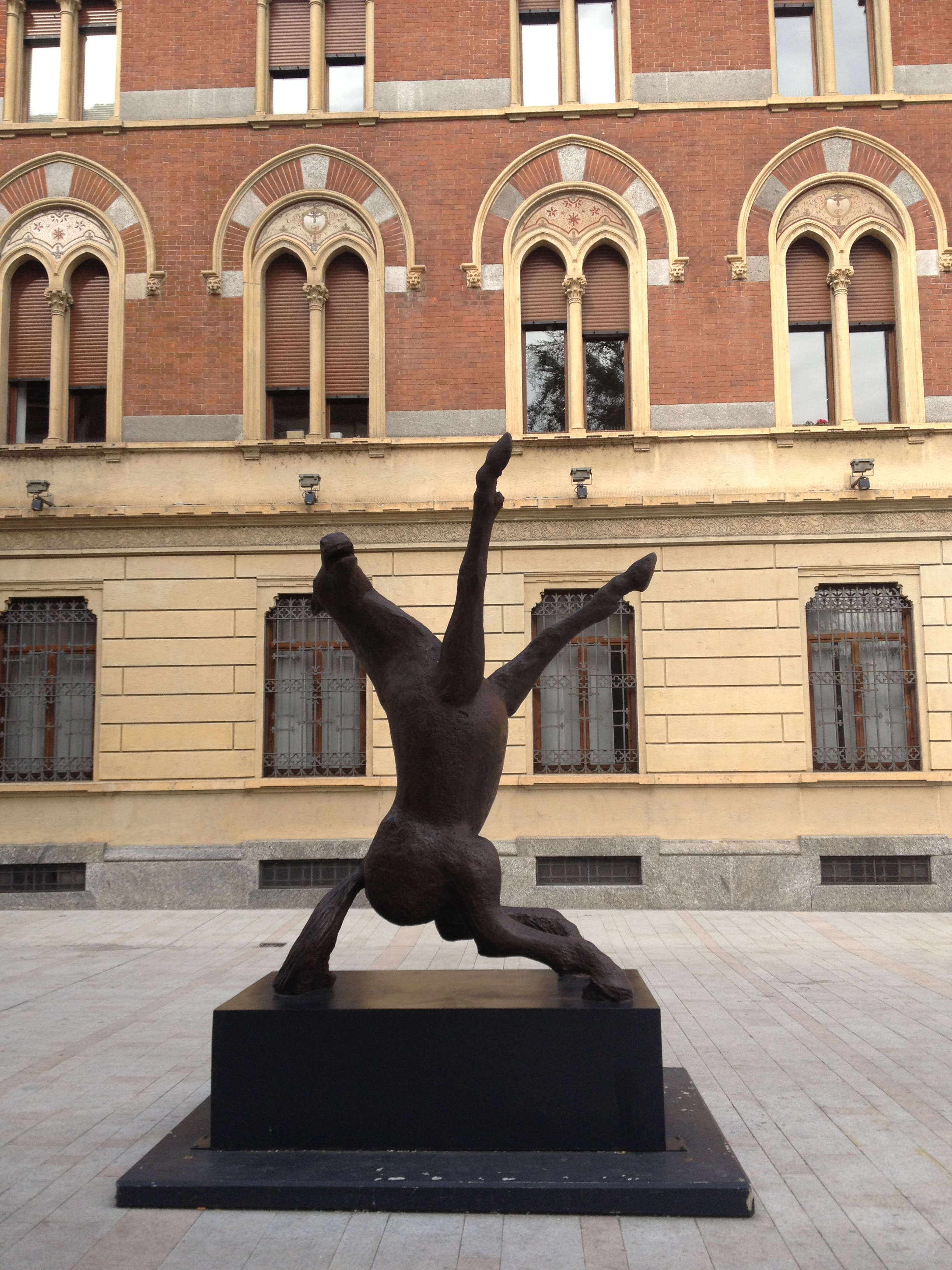 Sculture of a horse made in the 60's by the artist Aligi Sassu. Different exemplares of this statue are located in different cities as Milan, Palma de Mallorca and Busto Arsizio and San Marino.